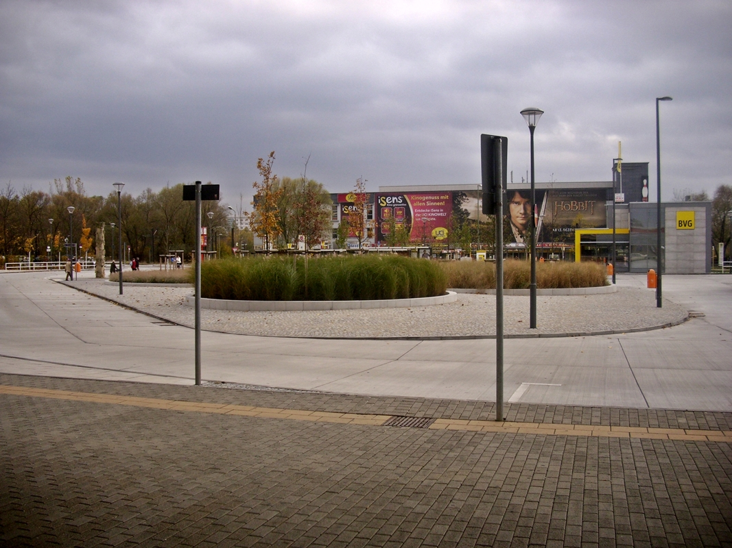 Bus station Marzahn